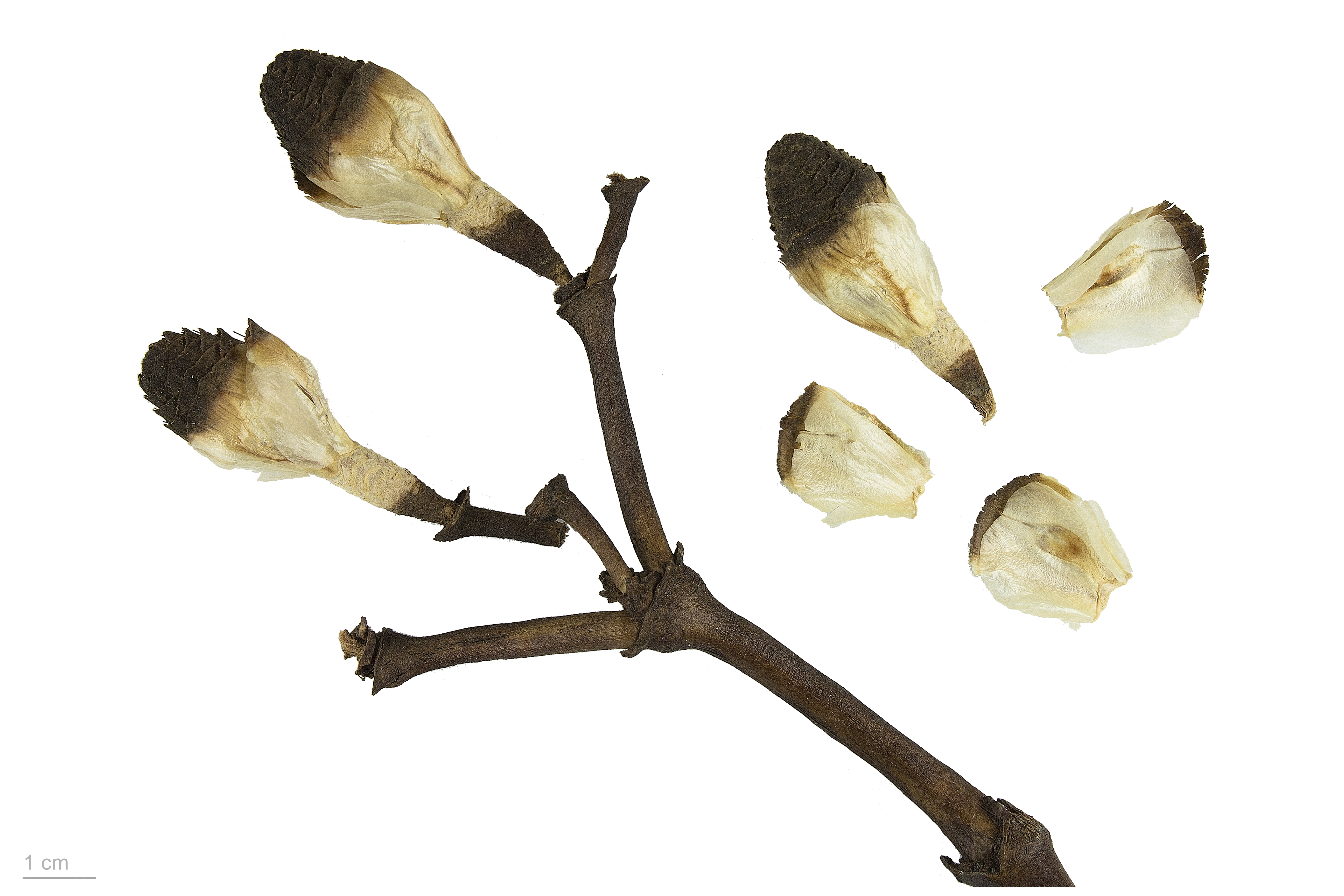 Welwitschia mirabilis, , seeds